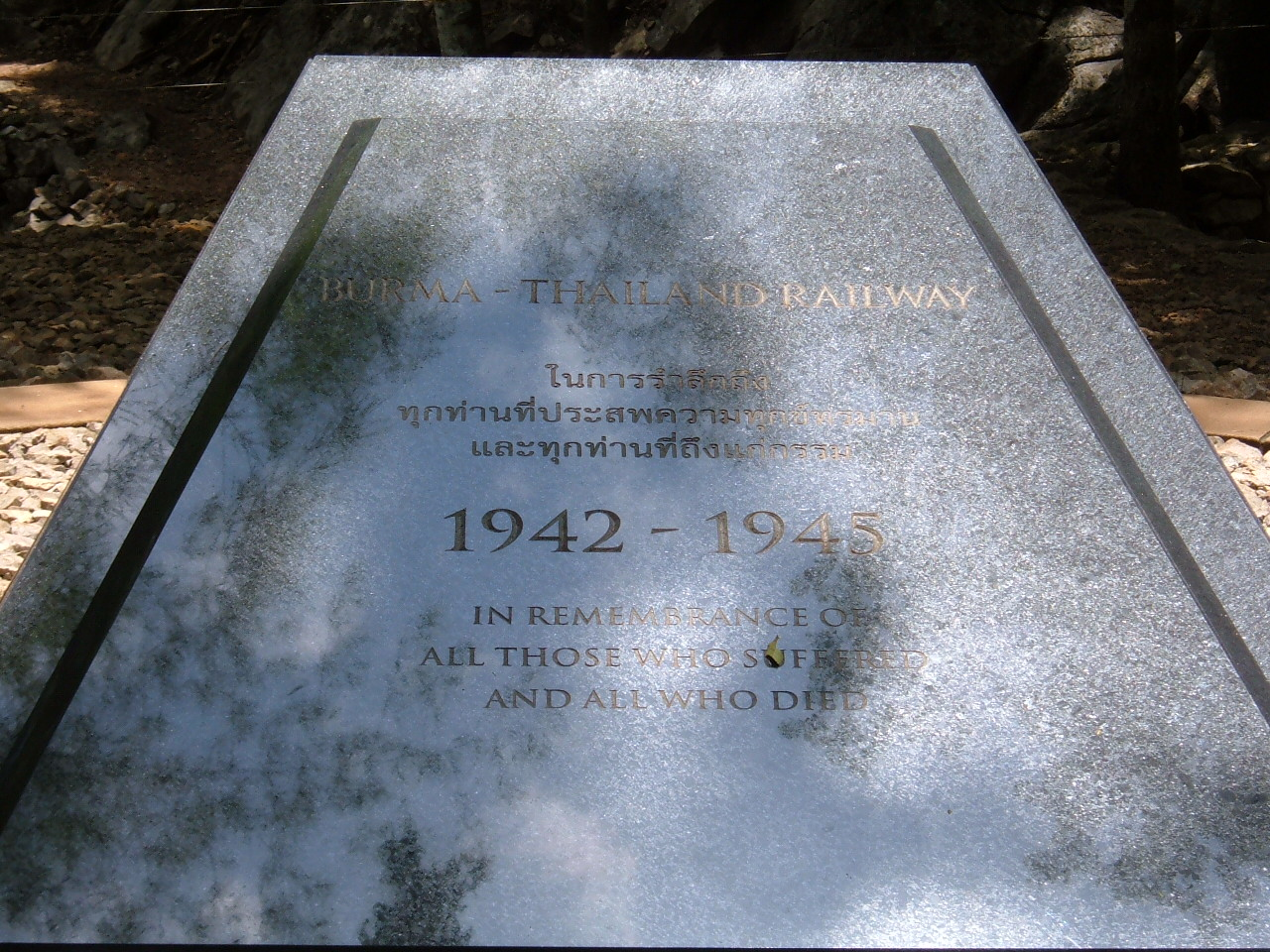 A memorial tablet at a portion of Hellfire Pass near its terminus in Kanchanaburi, Thailand. Following the pass from this point leads back to the Hellfire Pass Memorial Museum. Some of the original sleepers are still present.